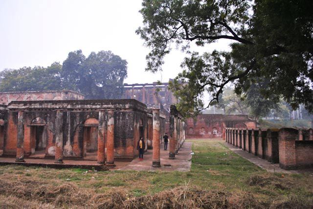 Residency is colonial building in Lucknow, India.